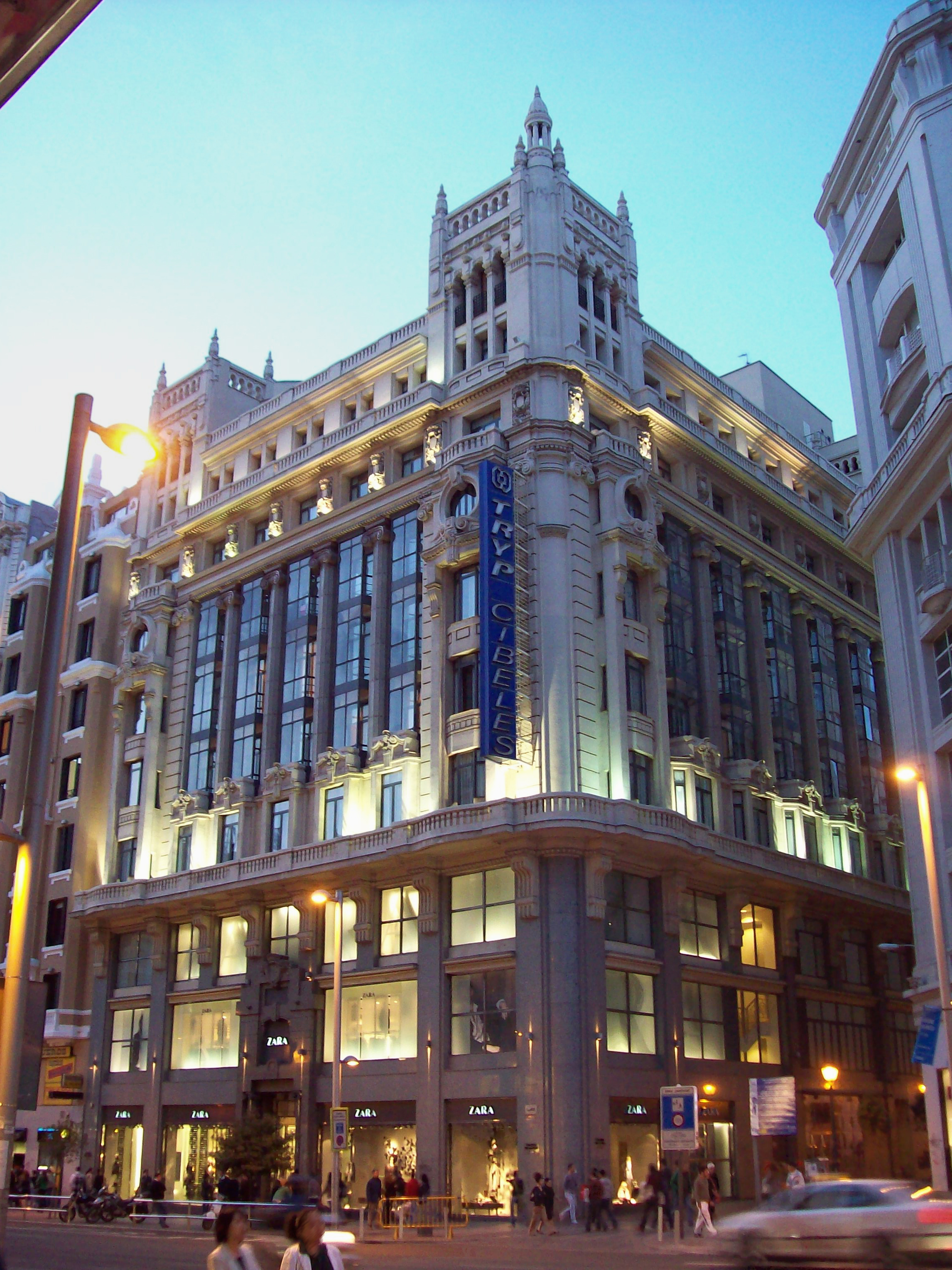 View, at dusk, of Hotel Tryp Cibeles, at 34 Gran Vía (an avenue) in Madrid (Spain). Building was projected in 1921 by architect Antonio Palacios Ramilo, built from 1921 to 1924, and inaugurated as Hotel Alfonso XIII.